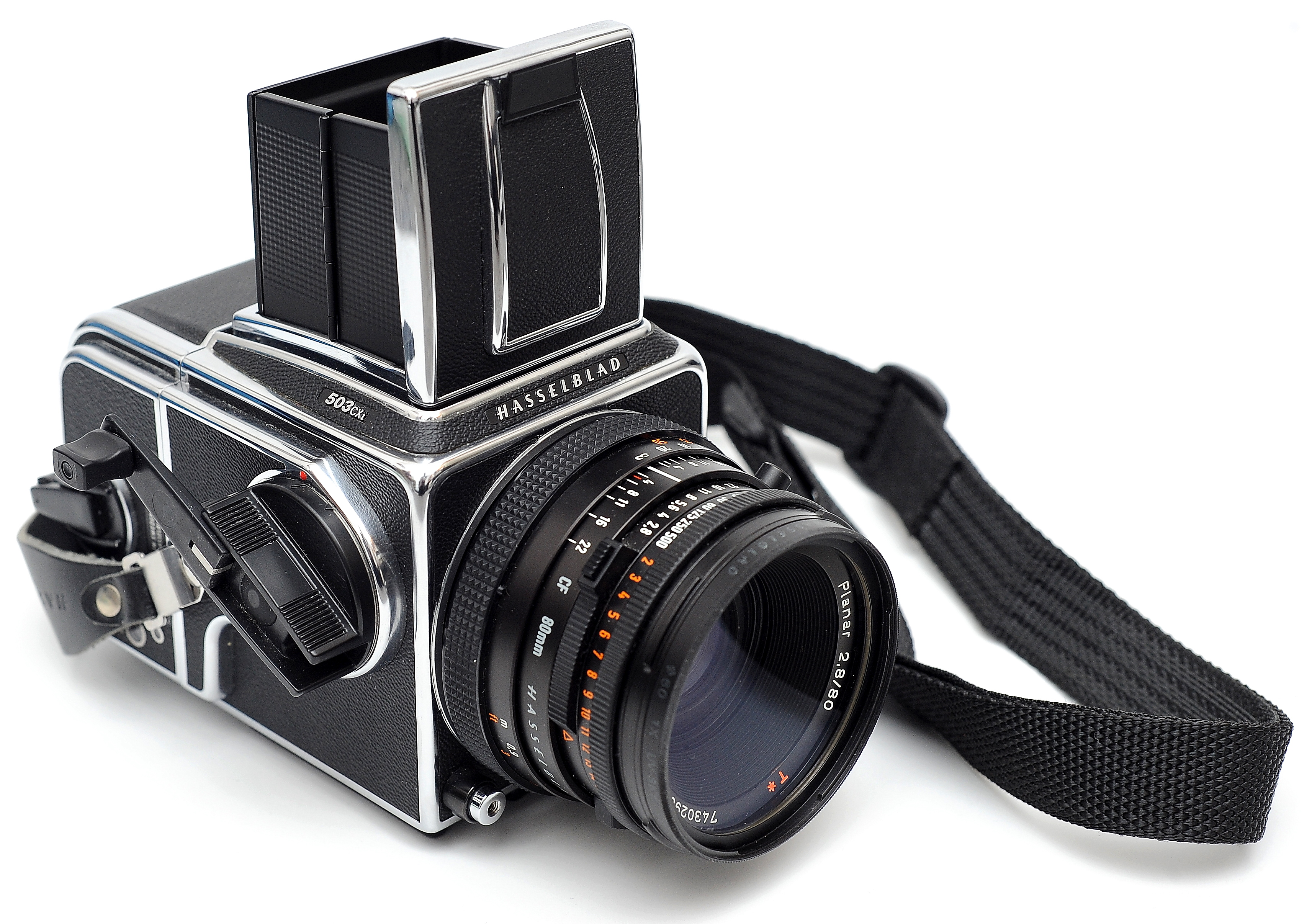 Hasselblad 503CXi